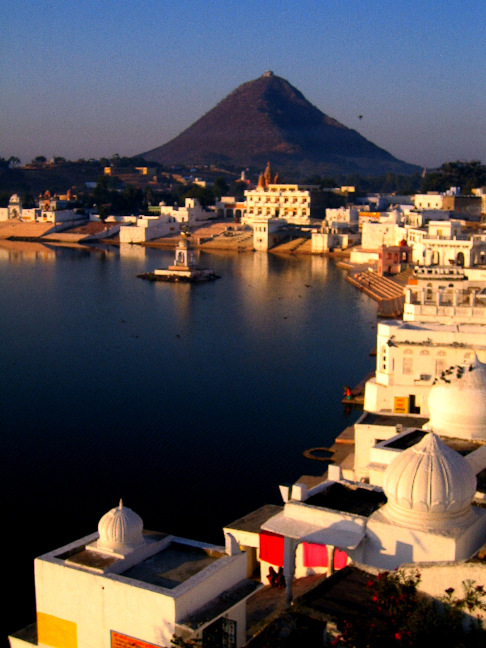 Ghats at Pushkar lake, Rajasthan.